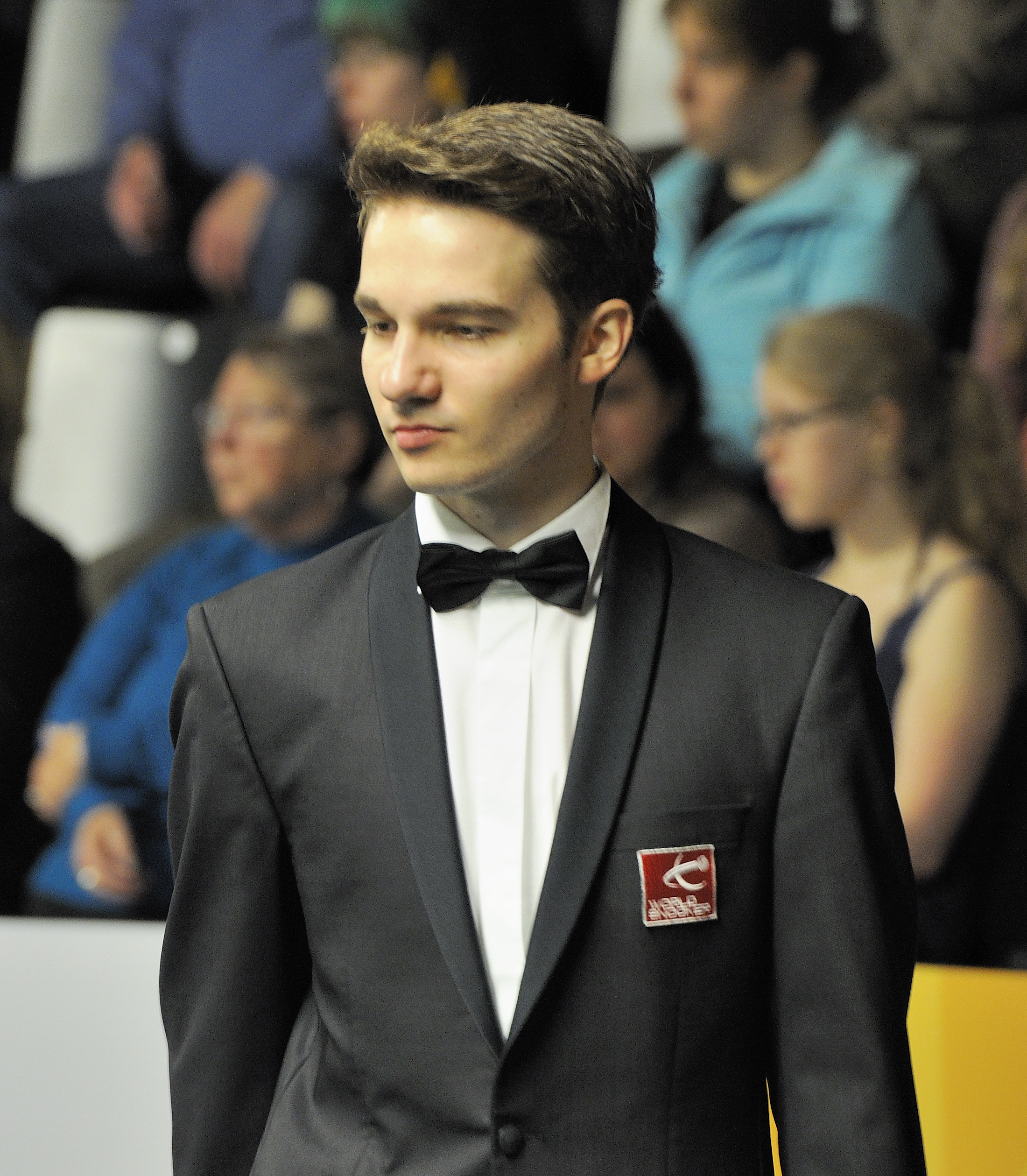 Picture taken in Berlin during the Snooker German Masters in 2013. Marcel Eckardt.